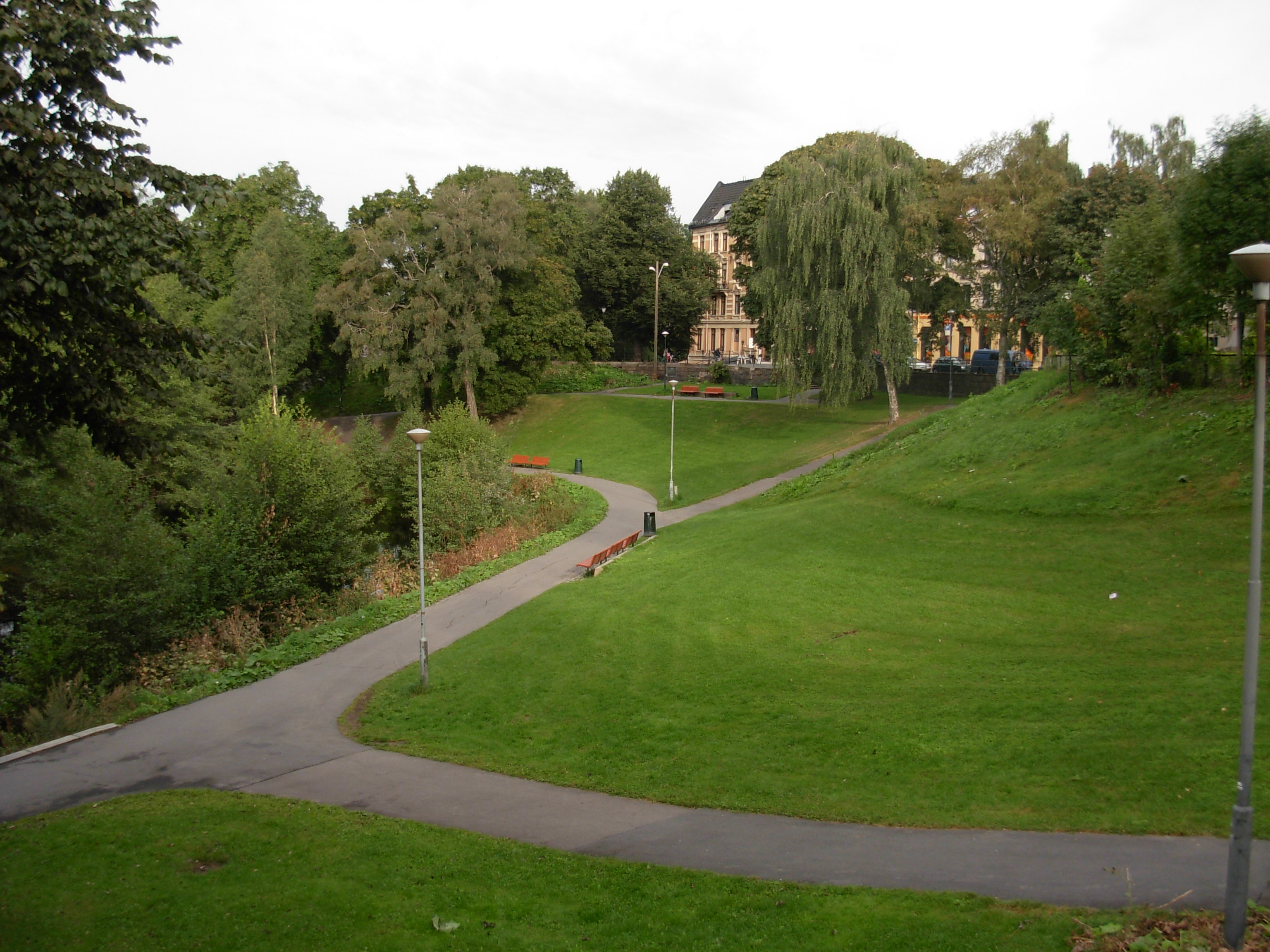 Akerselva by Th Kittelsens plass and Nybrua. Turvei (park trail) no. B10.